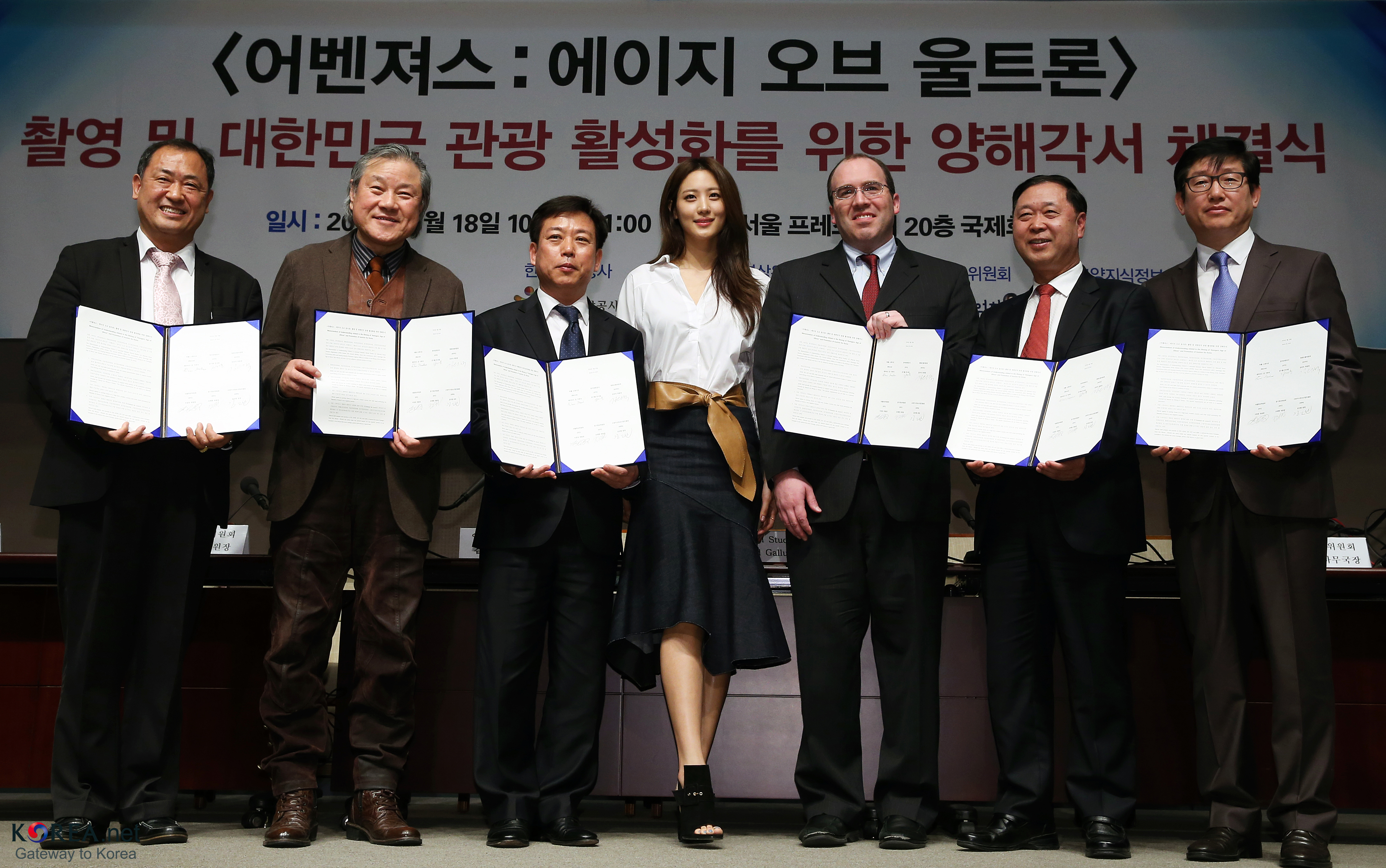 Avengers: Age of Ultron The Korea Film Commission and four government authorities signed an MOU with Marvel Studios to film its new movie, "Avengers: Age of Ultron," in Korea. 2014.03.18. Korea Press Center, Seoul Related Articles -Cheong Wa Dae- Heroes of the Avengers meet again in Seoul - -English- Heroes of the Avengers meet again in Seoul -Espanol- Los héroes de la serie Los Vengadores se reencuentran en Seúl -中文- 《复仇者联盟》的英雄们将亮相首尔 -Vietnamese- Các anh hùng của The Avengers tụ hội ở Seoul -日本語- アベンジャーズの英雄たちがソウルにやって来る -Francais- Les héros d'Avengers vont se retrouver à Séoul Ministry of Culture, Sports and Tourism Korean Culture and Information Service JEON HAN 어벤져스 : 에이지 오브 울트론 영화 어벤져스2 양해각서 체결식 2014-03-18 한국프레스센터 문화체육관광부 해외문화홍보원 코리아넷 전한